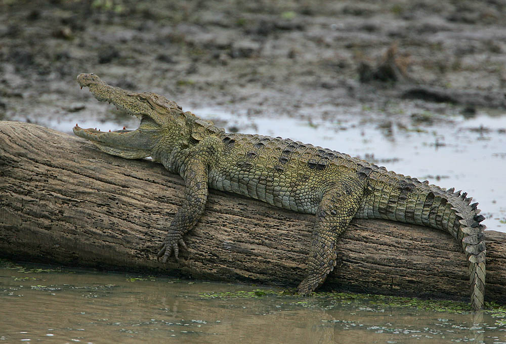 Basking in the morning sun.